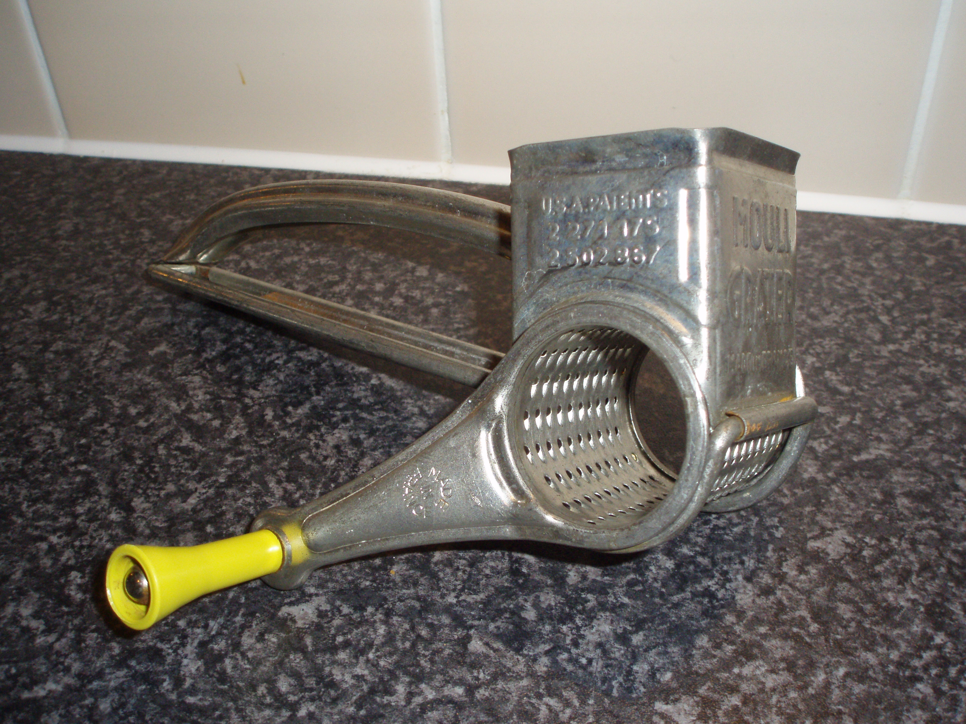 Mouli Grater, photo by Robert Kilpin.